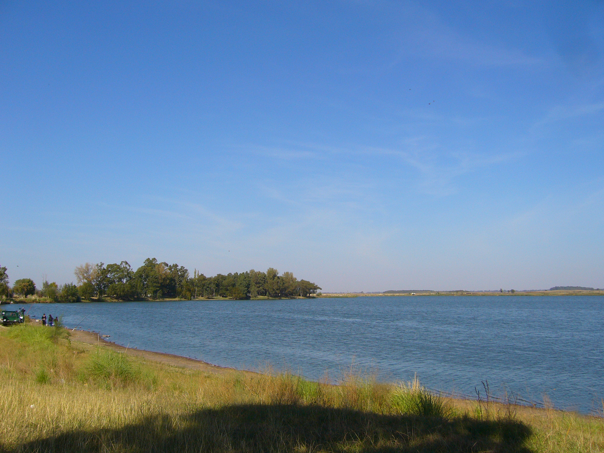 "La Arocena" lake, in La Pampa Province, Argentina